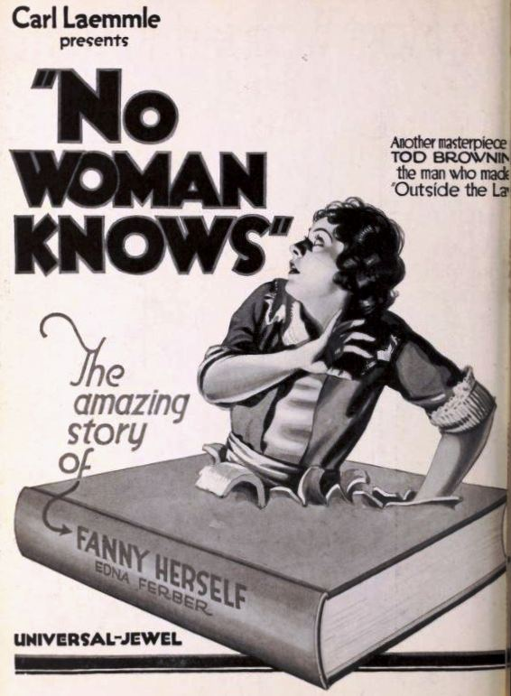 Advertisement for the American drama film No Woman Knows (1921) with Mabel Julienne Scott, on page 2 (inside front cover) of the August 20, 1921 Exhibitors Herald.